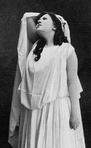 French opera singer Jeanne Gerville-Réache (1882-1915) in Gluck's Orfeo ed Euridice